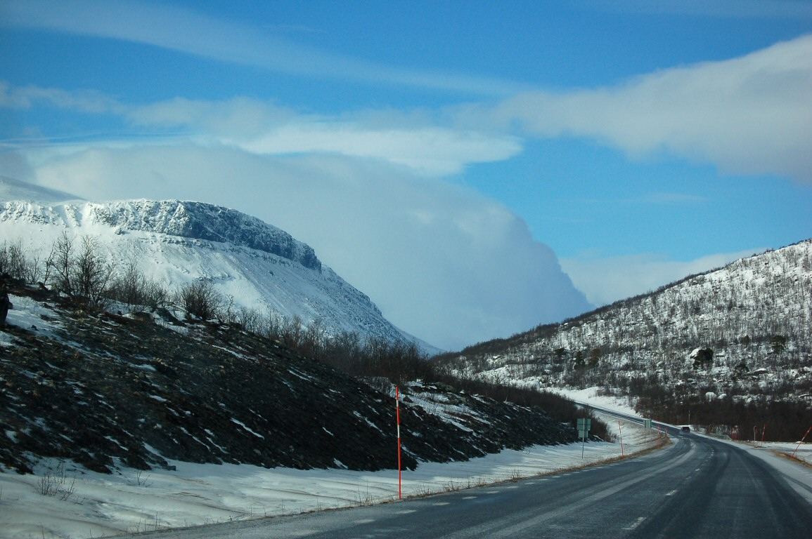 Scenery along the European route E10, north-west from Kiruna, Sweden